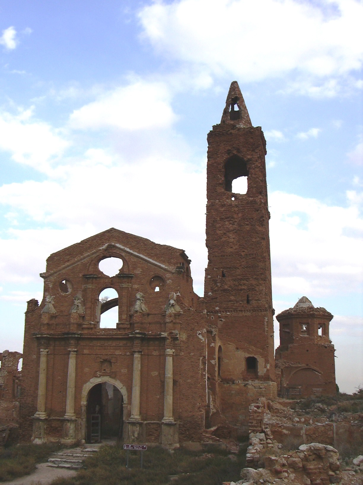 Belchite - Town in Aragon, Spain - Destroyed during the Spanish Civil War (1937), was not rebuild and stayed as monument